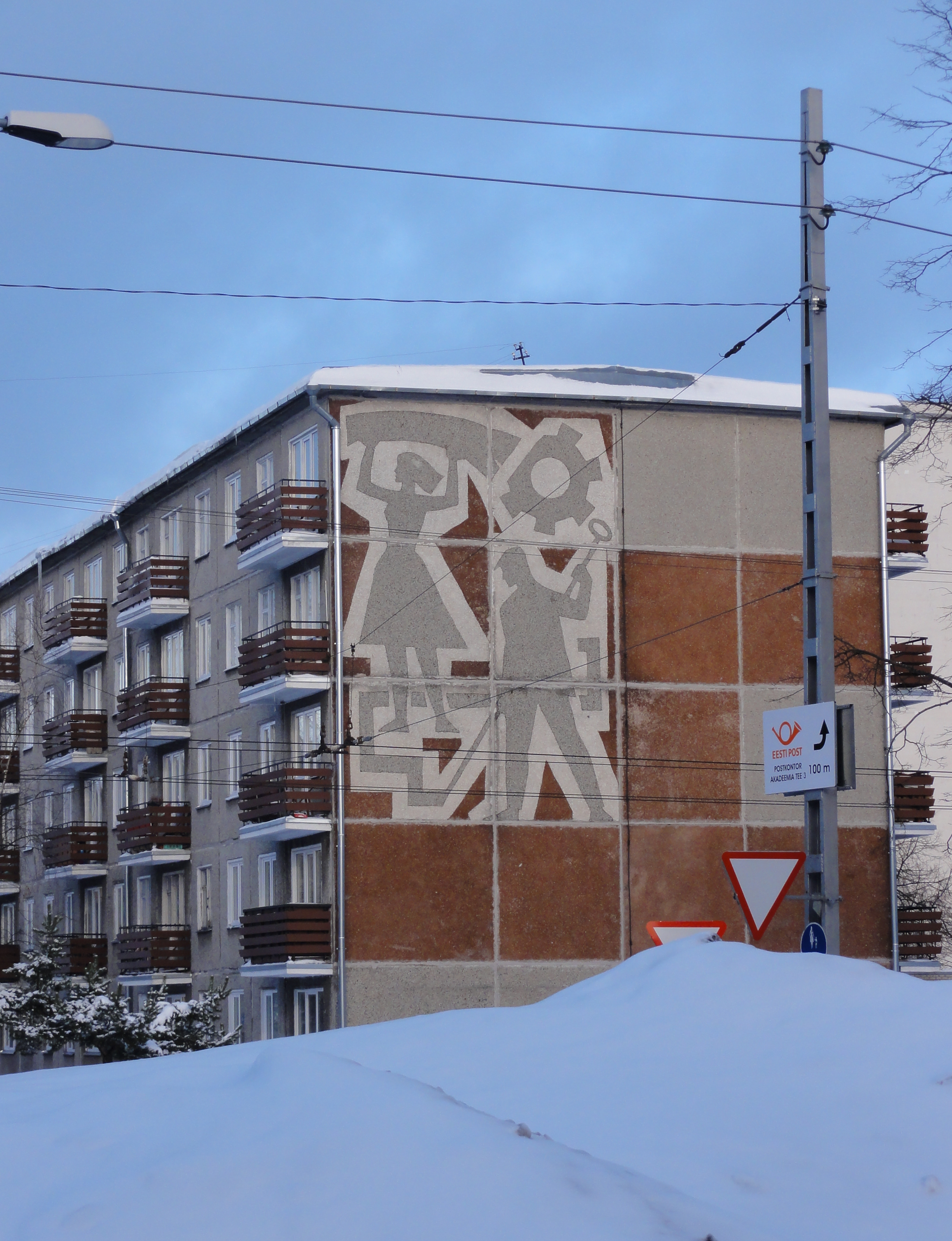 Soviet building in Mustamäe